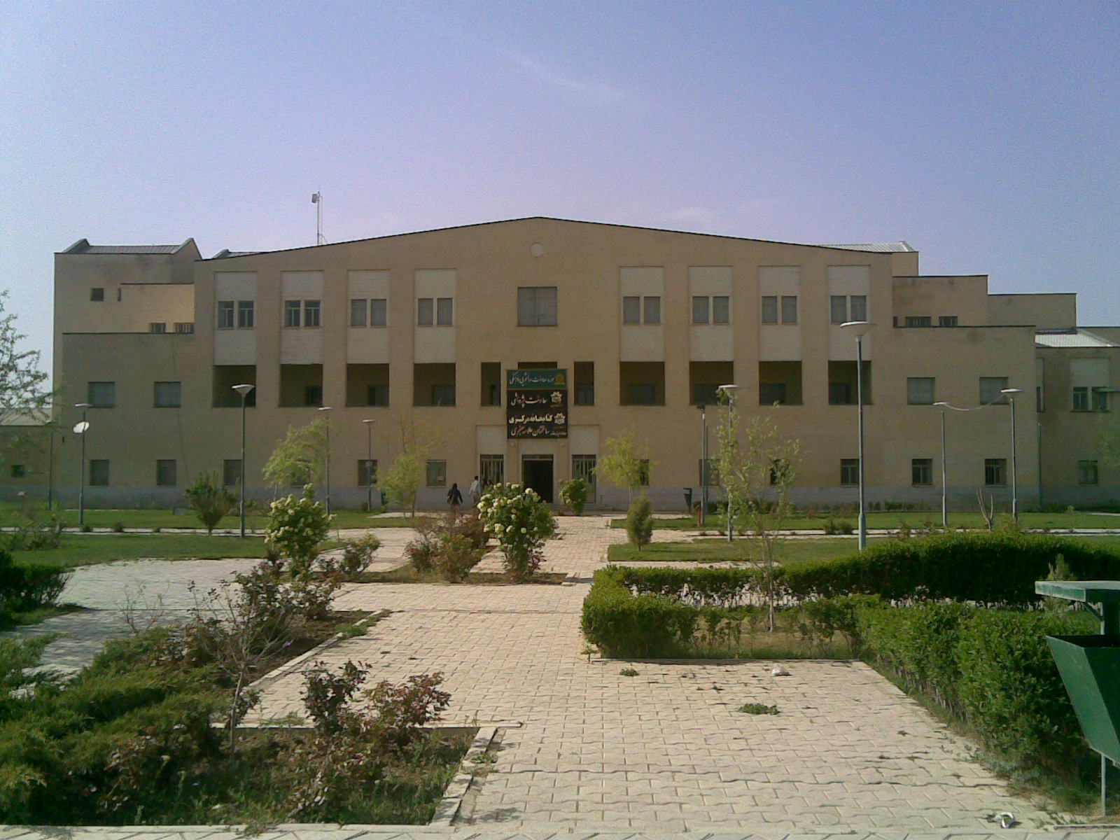 Shahid Chamran Hall (central library) — of Urmia University. Taken By Farzad Golghasemi